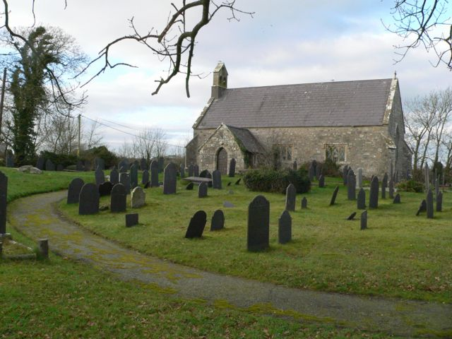 Eglwys St. Llwydian, Heneglwys. A view of St. Llwydian's Church, at Heneglwys, near Mona, Anglesey.